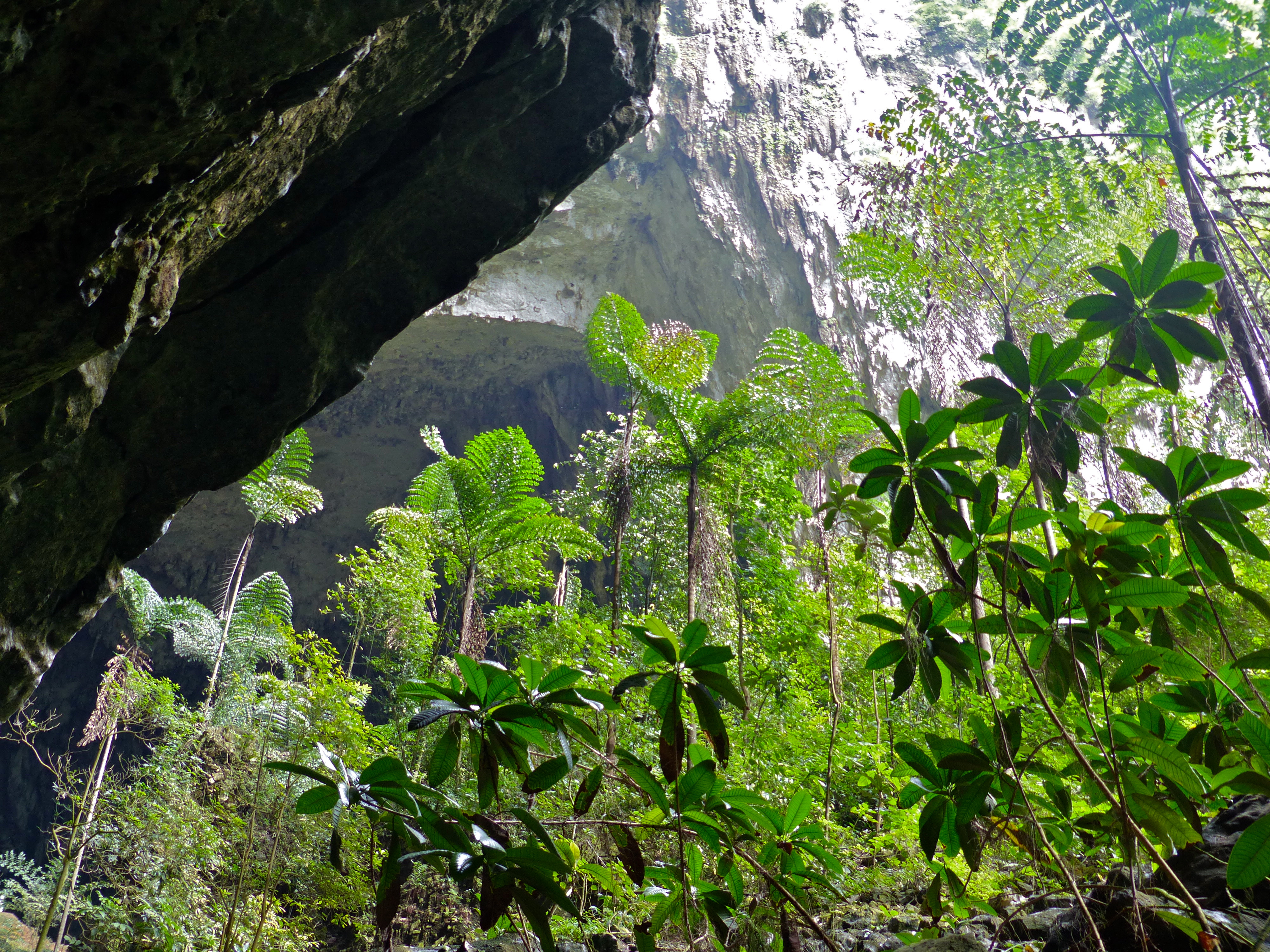 Deer Cave Entrance, Mulu NP, Sarawak, MALAYSIA